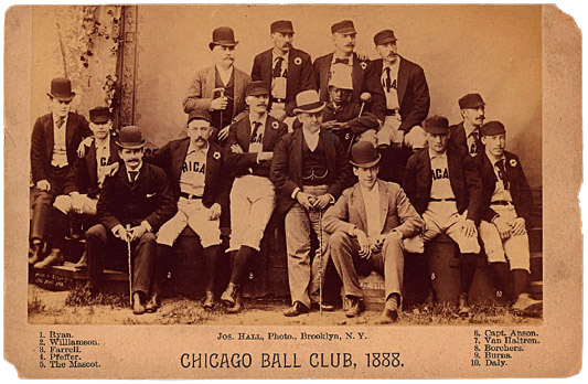 The 1888 Chicago White Stockings teamTop row, left to right: ?, Fred Pfeffer, Cap Anson, George Van HaltrenBottom row, left to right: ?, Jimmy Ryan, Ned Williamson, Duke Farrell, Digby Bell (in white bowler with black band), Clarence Duval (mascot), DeWolf Hopper (in dark bowler), George Borchers, Tom Burns, Tom DalyDeWolfe Hopper is the vaudeville comedian who made "Casey at the Bat" famous, adopting the classic poem as his "signature" piece.